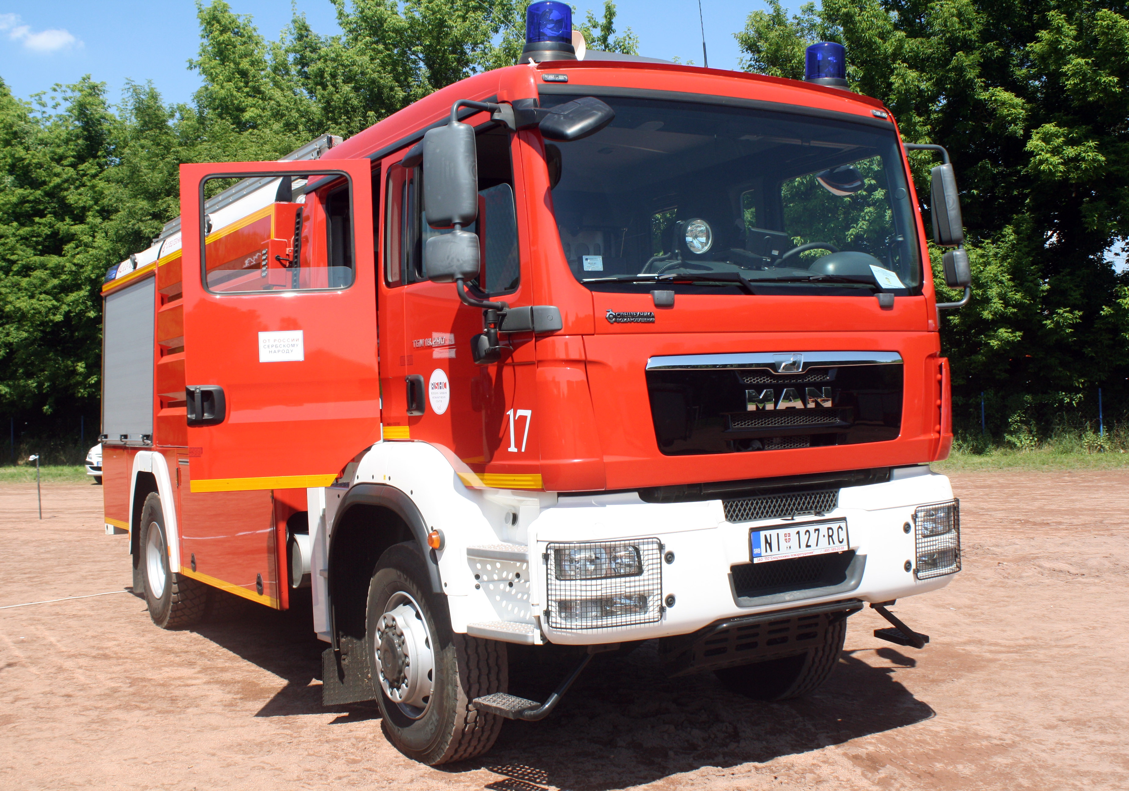 Serbian Fire and rescue department MAN TGM 18.290, Russian donation.